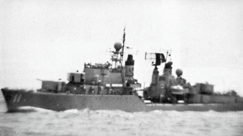 The Royal Australian Navy destroyer HMAS Vampire (D11) underway in the Red Sea, circa in 1975. The origial description of this photo reads: "Russian ships off the coast of Africa by the Red Sea, an arm of the Indian Ocean".